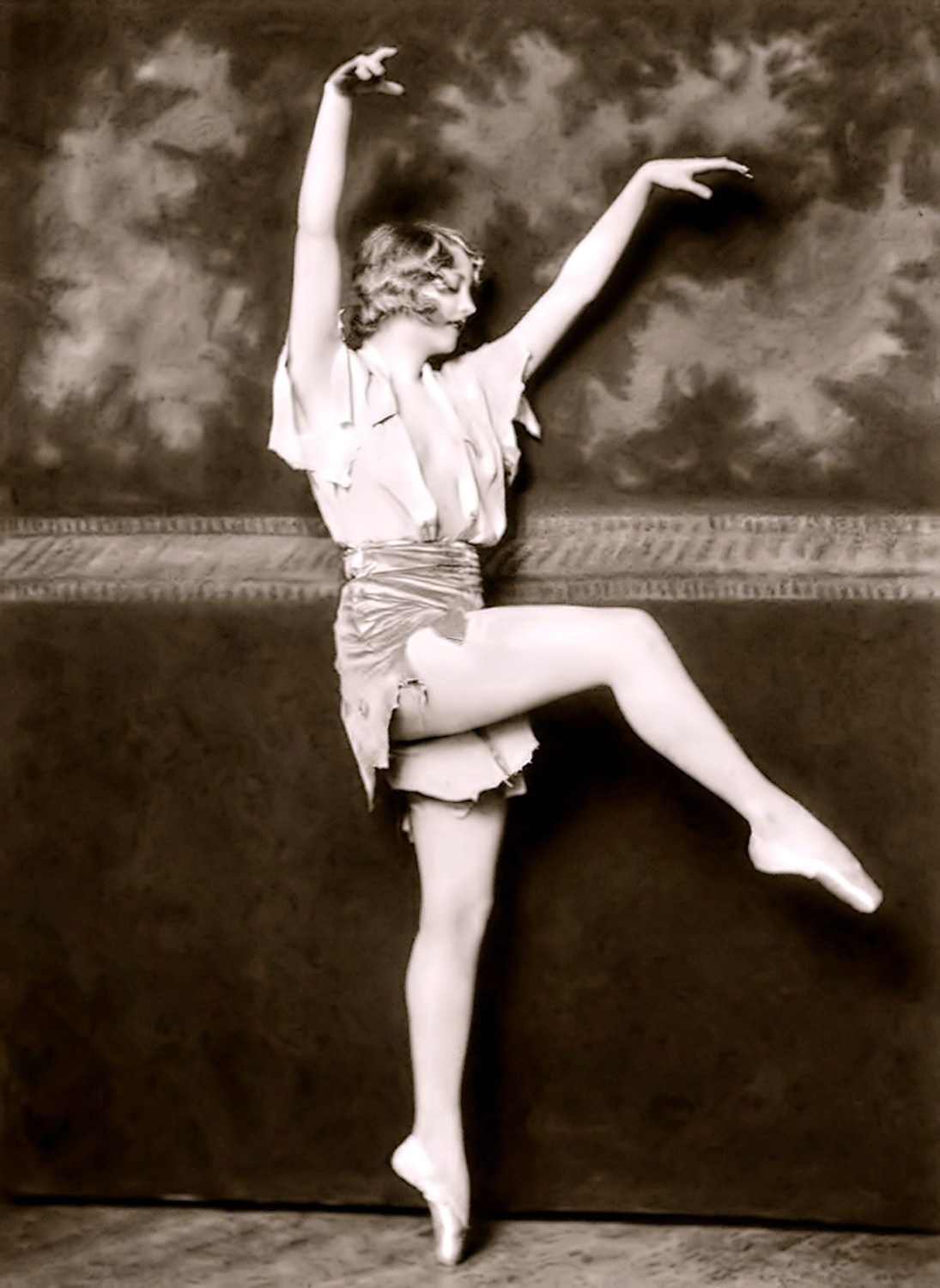 Helen Hayes (Brown) circa 1927 by Alfred Cheney Johnston